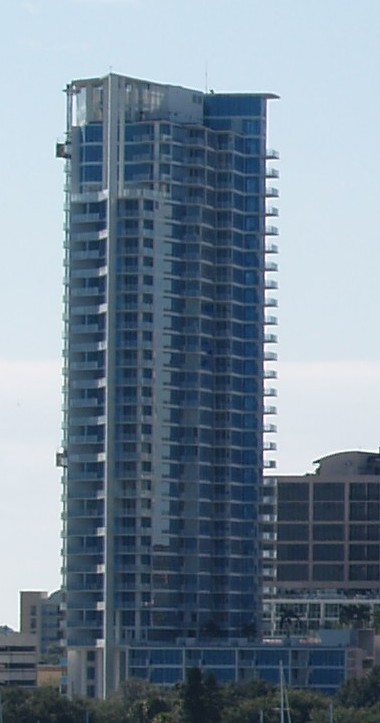 St. Petersburg skyline from The Pier